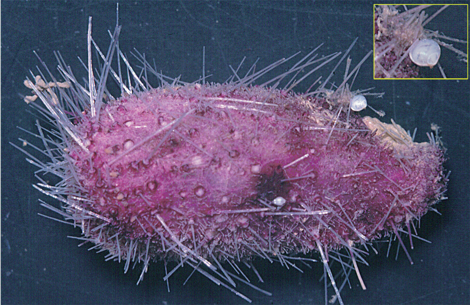 Pourtalesia miranda Agassiz, 1869, Echinoidea, Echinodermata, with Syssitomya pourtalesiana Oliver, 2012, Montacutidae, Bivalvia, Mollusca, from Oliver (2012: fig.9)